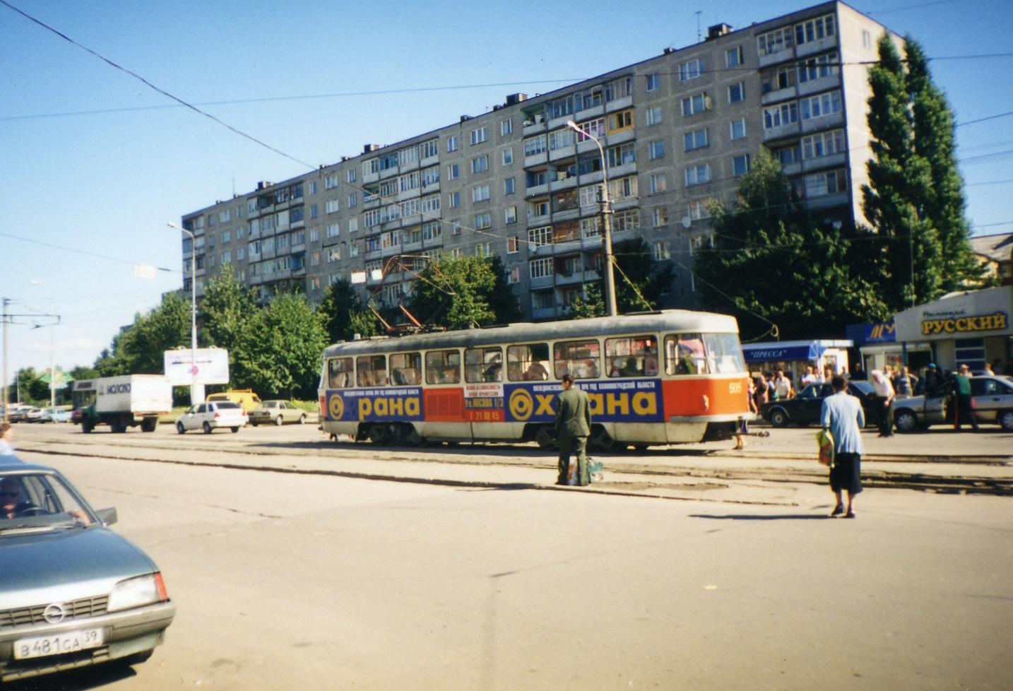 Tatra T4D tram 505 (former Halle 1061) in Kaliningrad, Russia. Photo taken in street April 9th.